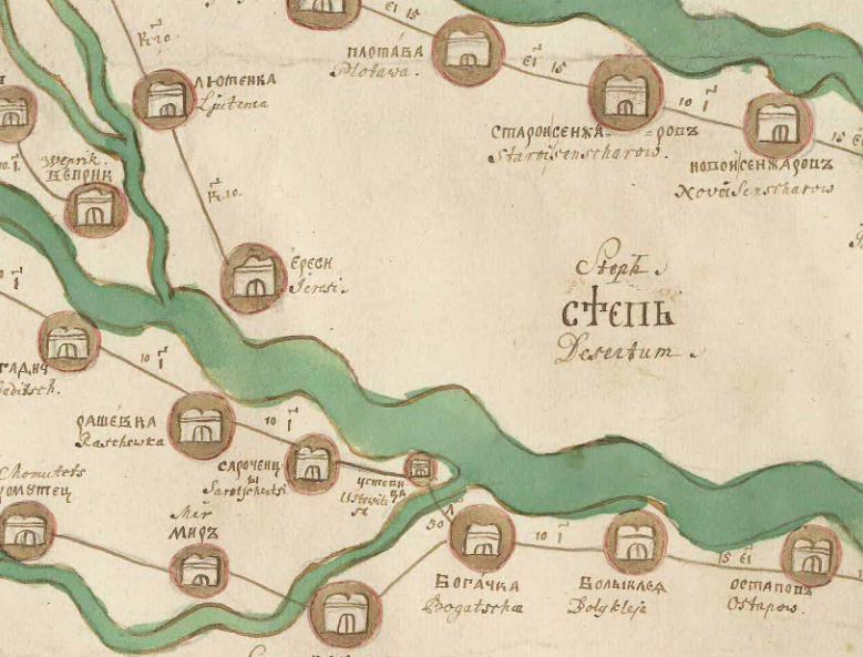 Tshertosch ukrainskim i tsherkaskim gorodam ot Moskwij dokrijma.1700